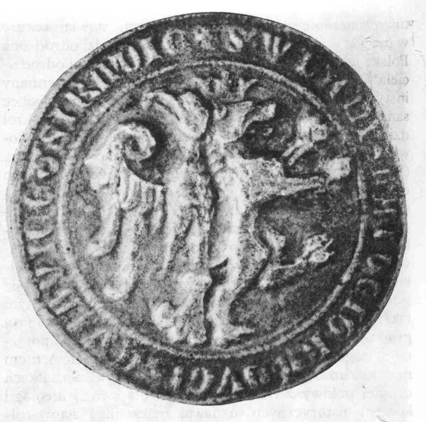 The Kuyavian seal of Ladislaus I of Poland